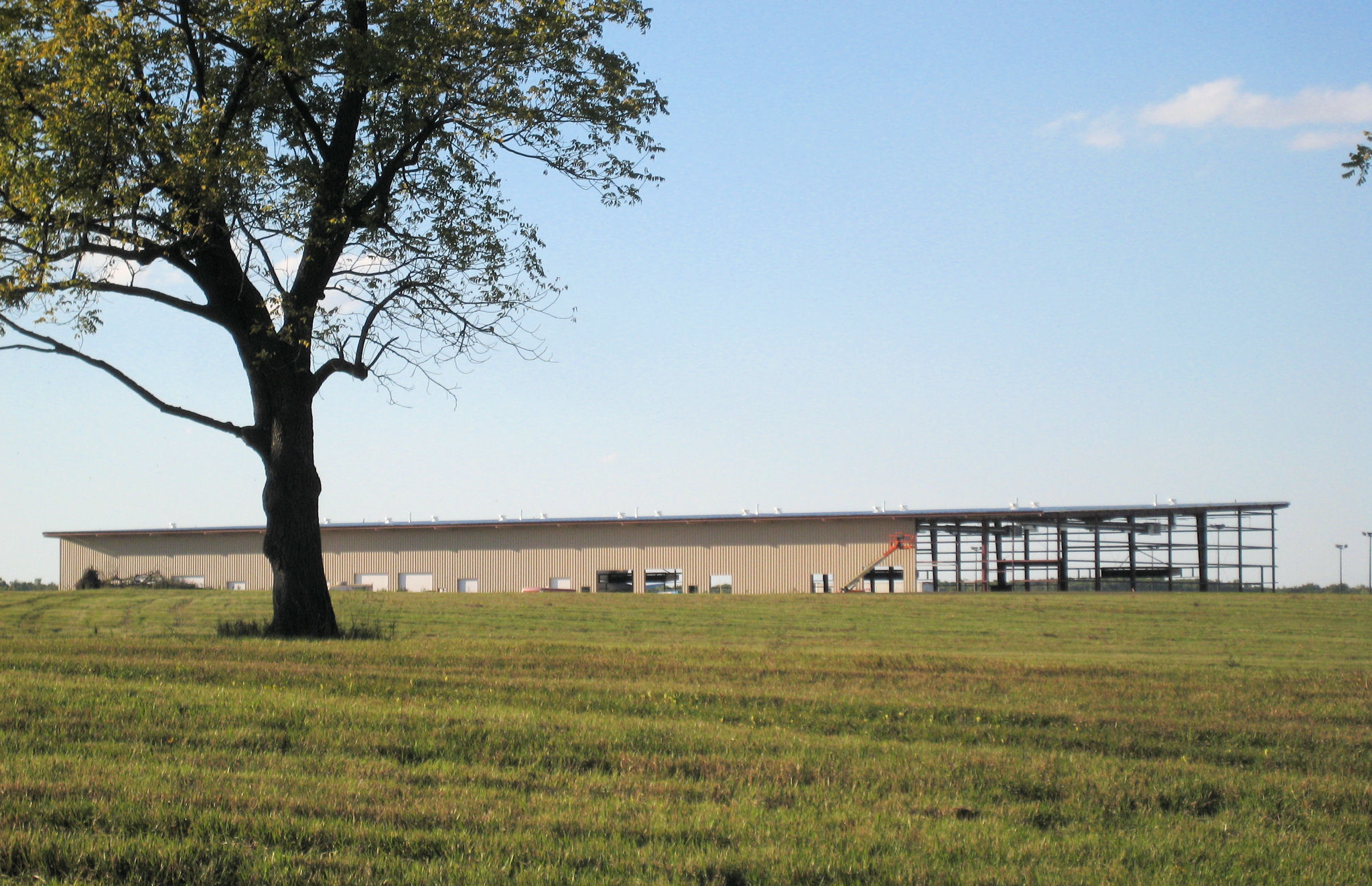 Cargo terminal/warehouse construction at Capital Region International Airport in DeWitt Charter Township (near Lansing, Michigan), September 26, 2012. Photo taken from East Airport Service Road, southeast of main passenger terminal, facing north. (48,000 sq ft; 4,459 m²)